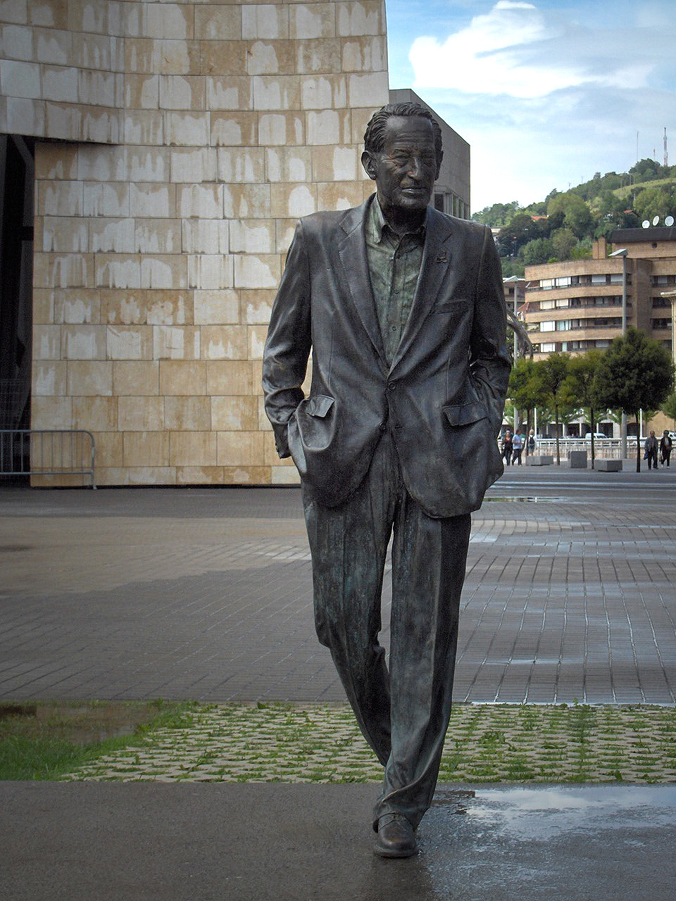 Ramon Rubial Cavia; statue outside the Guggenheim museum in Bilbao, Spain. Sculpture by Casto Solano.